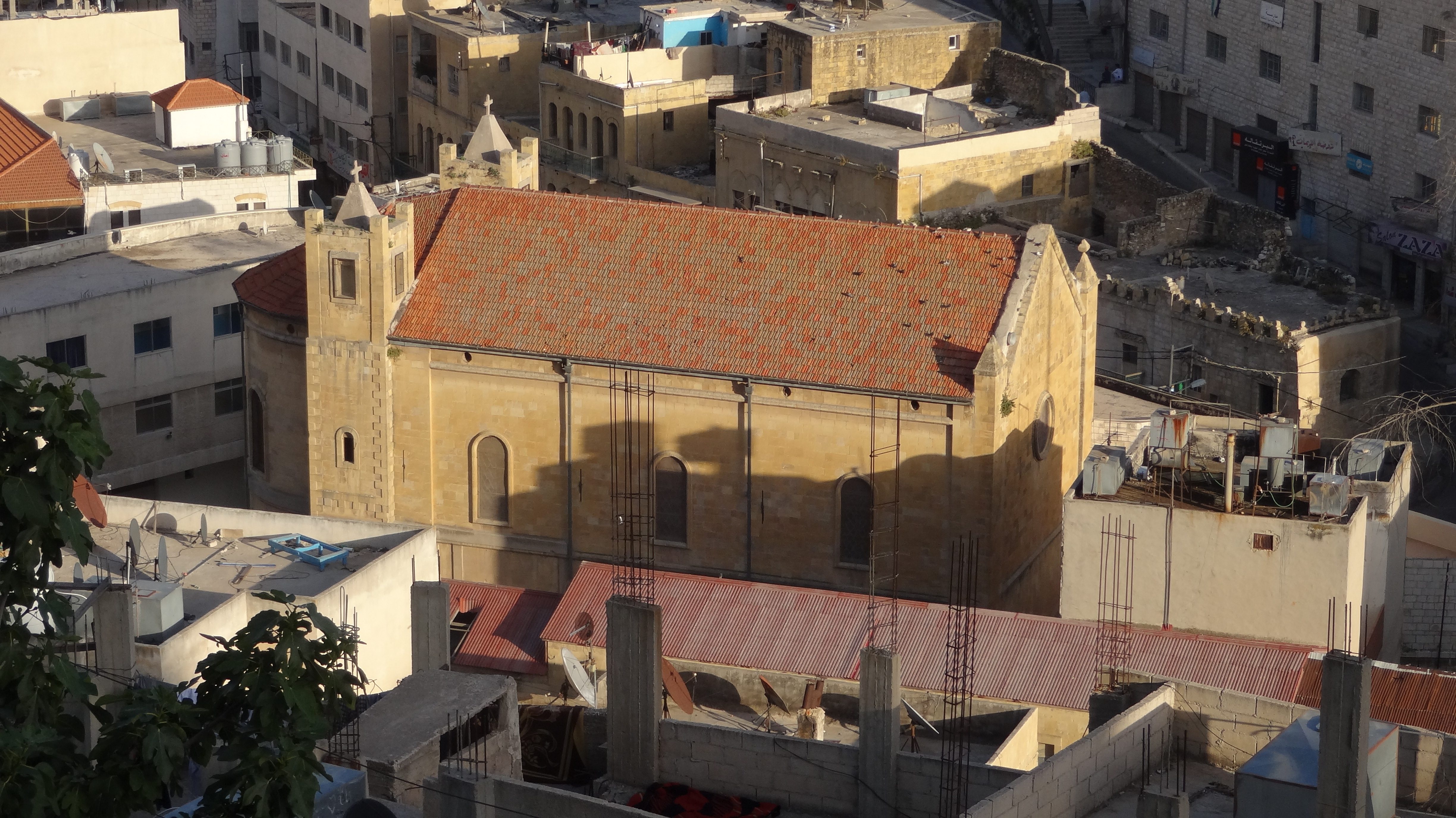 Central Area of Salt city. The Area called Al-Saha. Historical Salt Churches are Balqa Tourism Directorate, Abu Jaber Museum are all within the premises of Al-Saha.